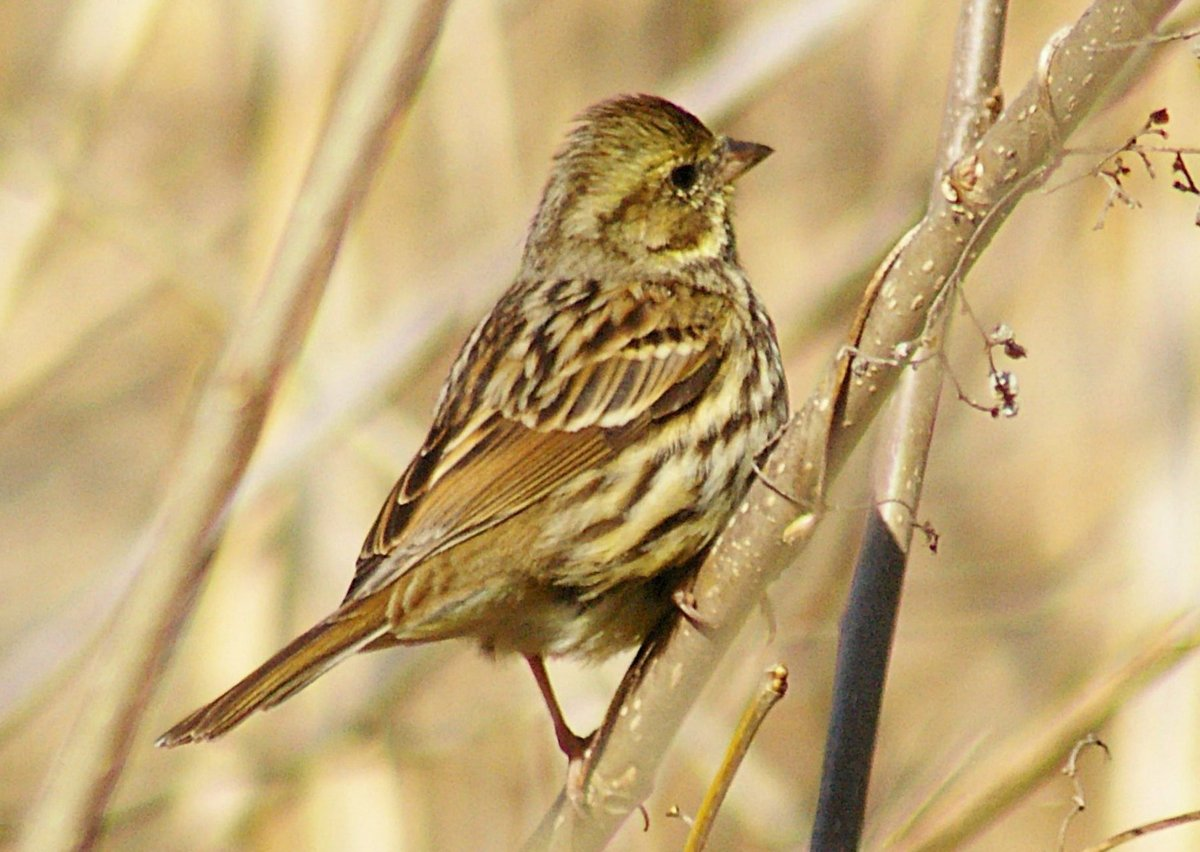 black-faced bunting female. Japan, Tsukuba (wild), 2007